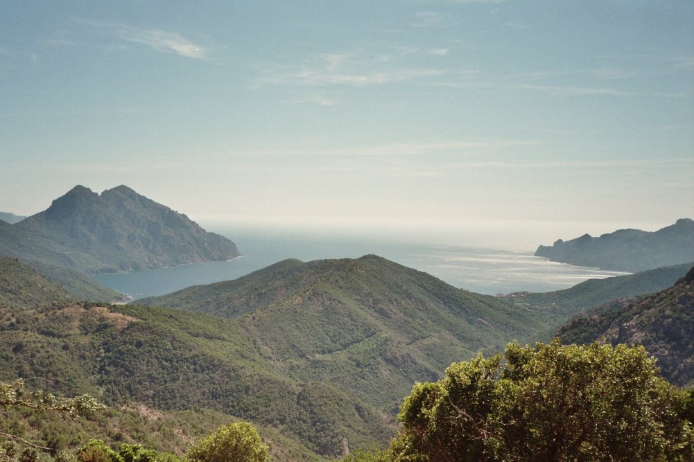 The Girolata gulf on Corse, France.